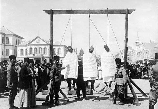 The corpse of three members of the Syrian resistence, hanged in Marjeh Square during the Arab Revolt of 1916-1918. (Original description)